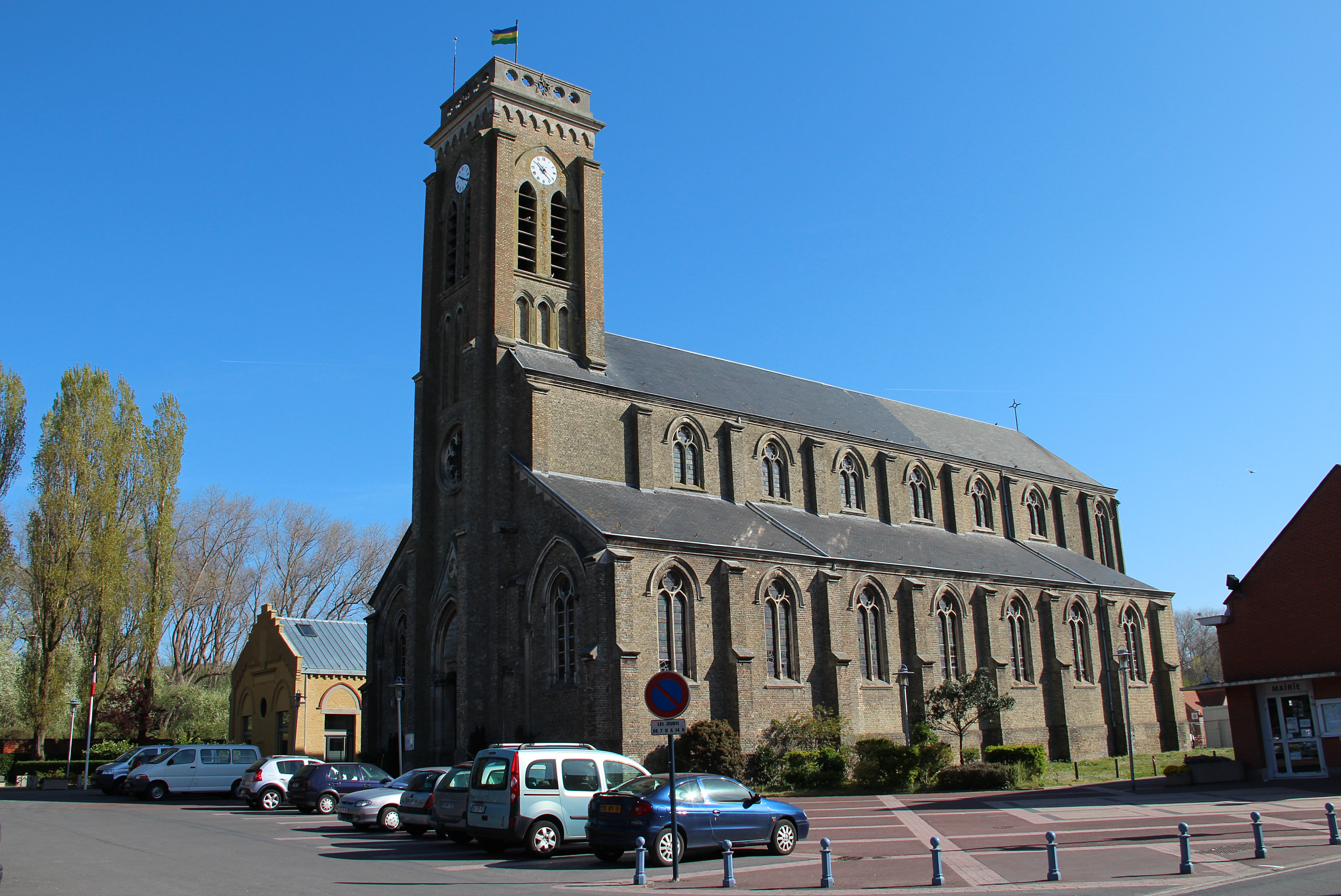 The Notre-Dame-des-Dunes church in Bray-Dunes (Nord department, France).